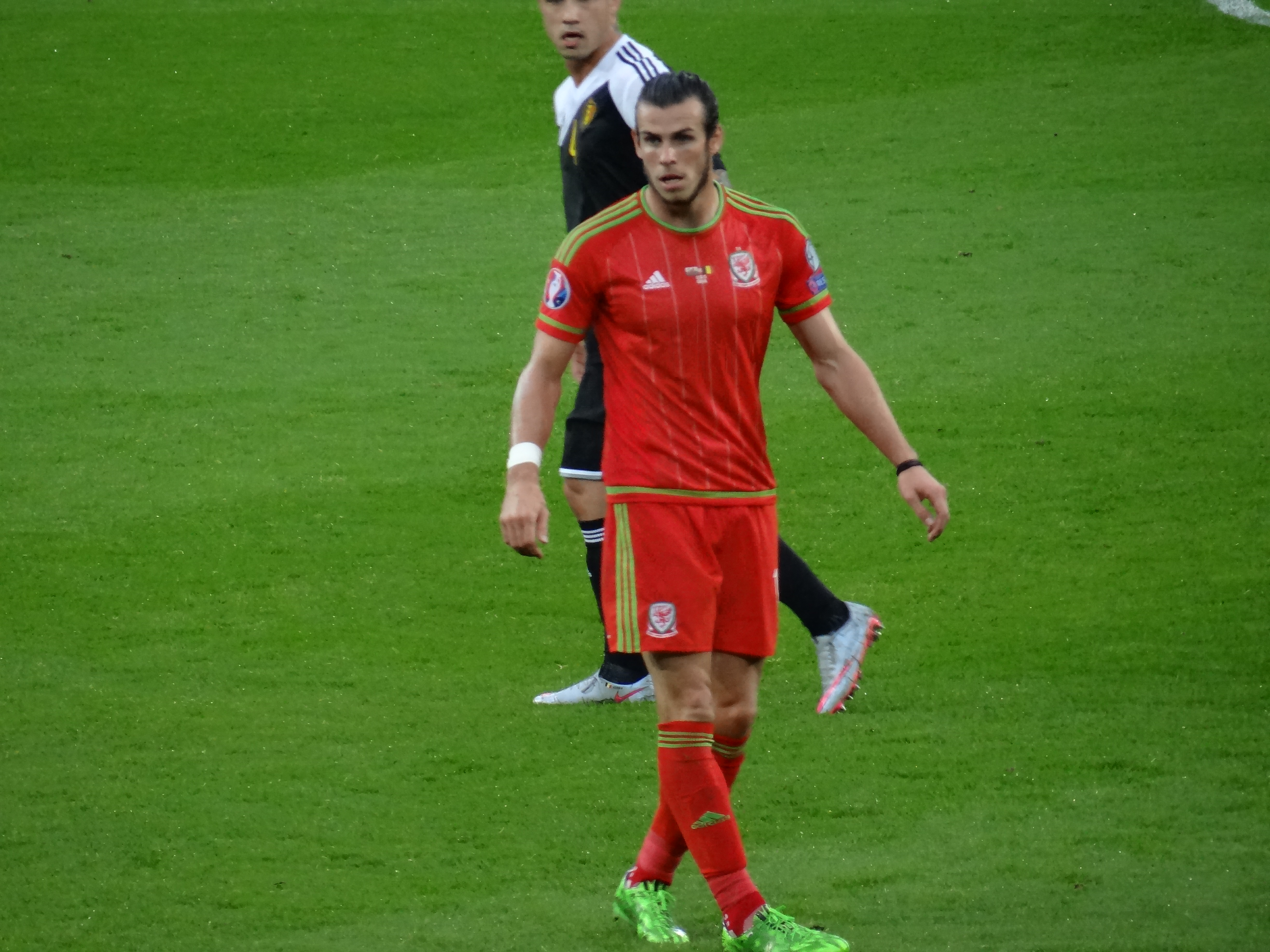 Gareth Bale playing for Wales in 2015